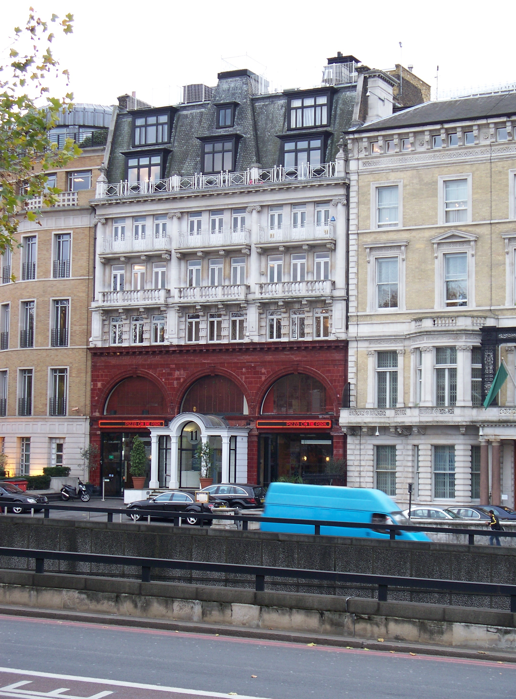 Former Hyde Park Corner underground station building